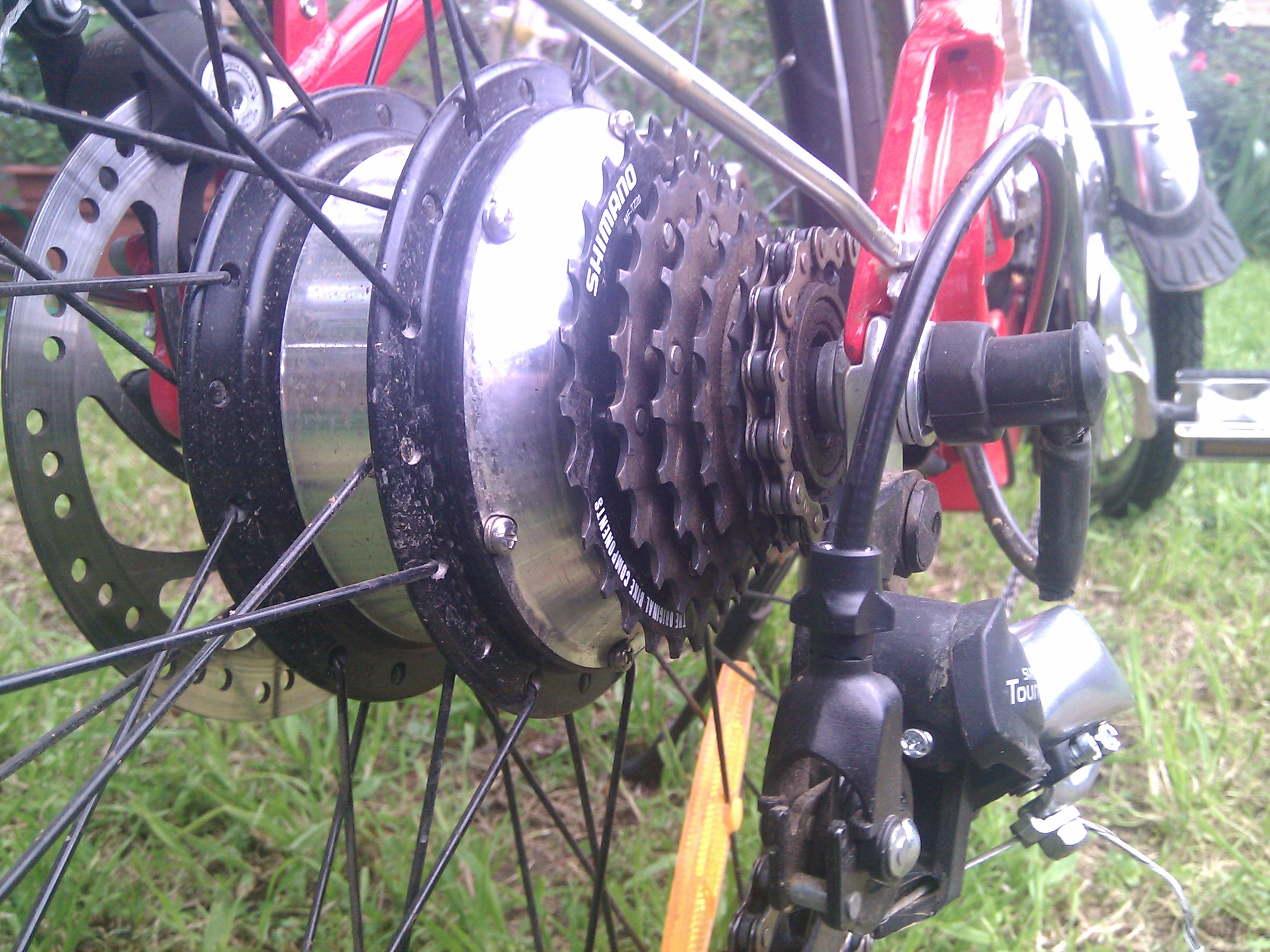 A view of a bicycle Brushless DC electric motor. These motors are built into the wheel hub itself, with the stator fixed solidly to the axle and the magnets attached to and rotating with the wheel. The bicycle wheel hub is the motor.